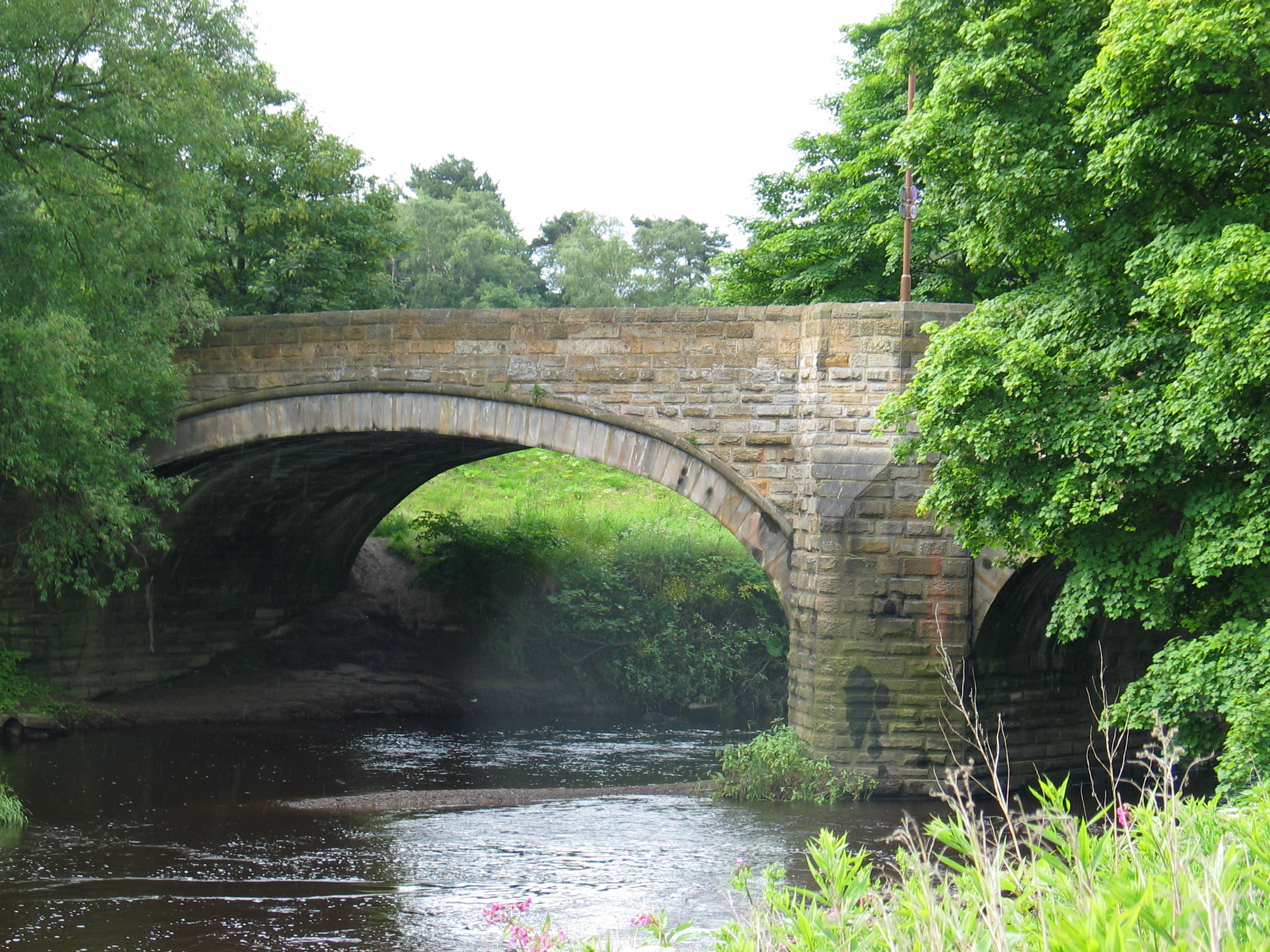 The River Wear at Shincliffe Bridge, taken by Peter Hughes on Saturday 30 June 2007